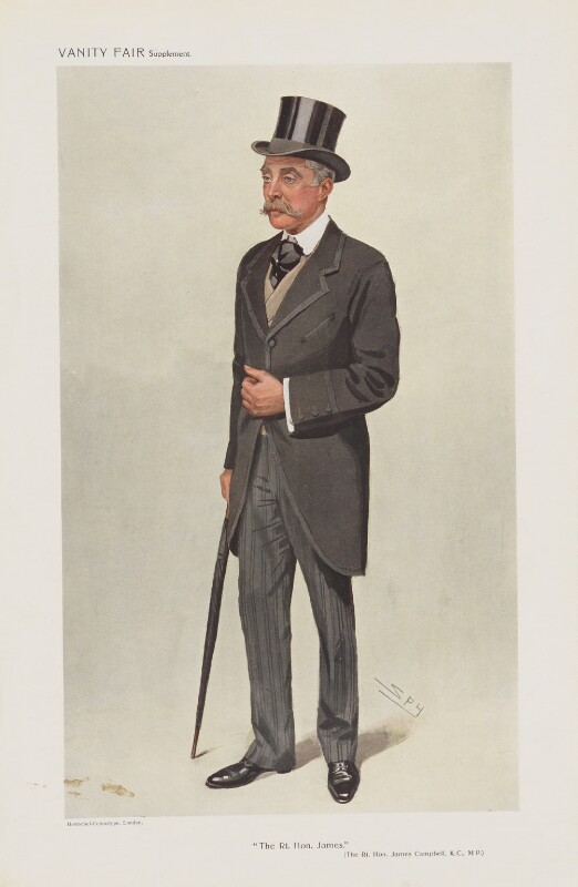 Men of the Day No.1186: Caricature of The Rt Hon JHM Campbell. Caption reads: "The Rt Hon James"